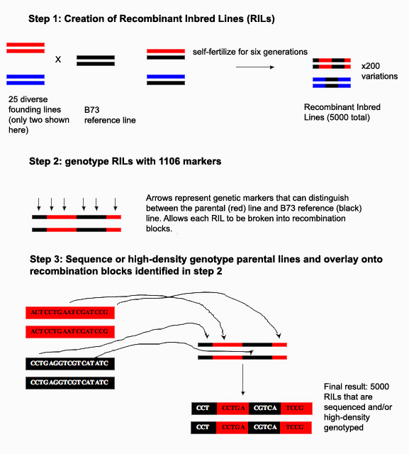 summary of the creation of the Nested Association Mapping Population